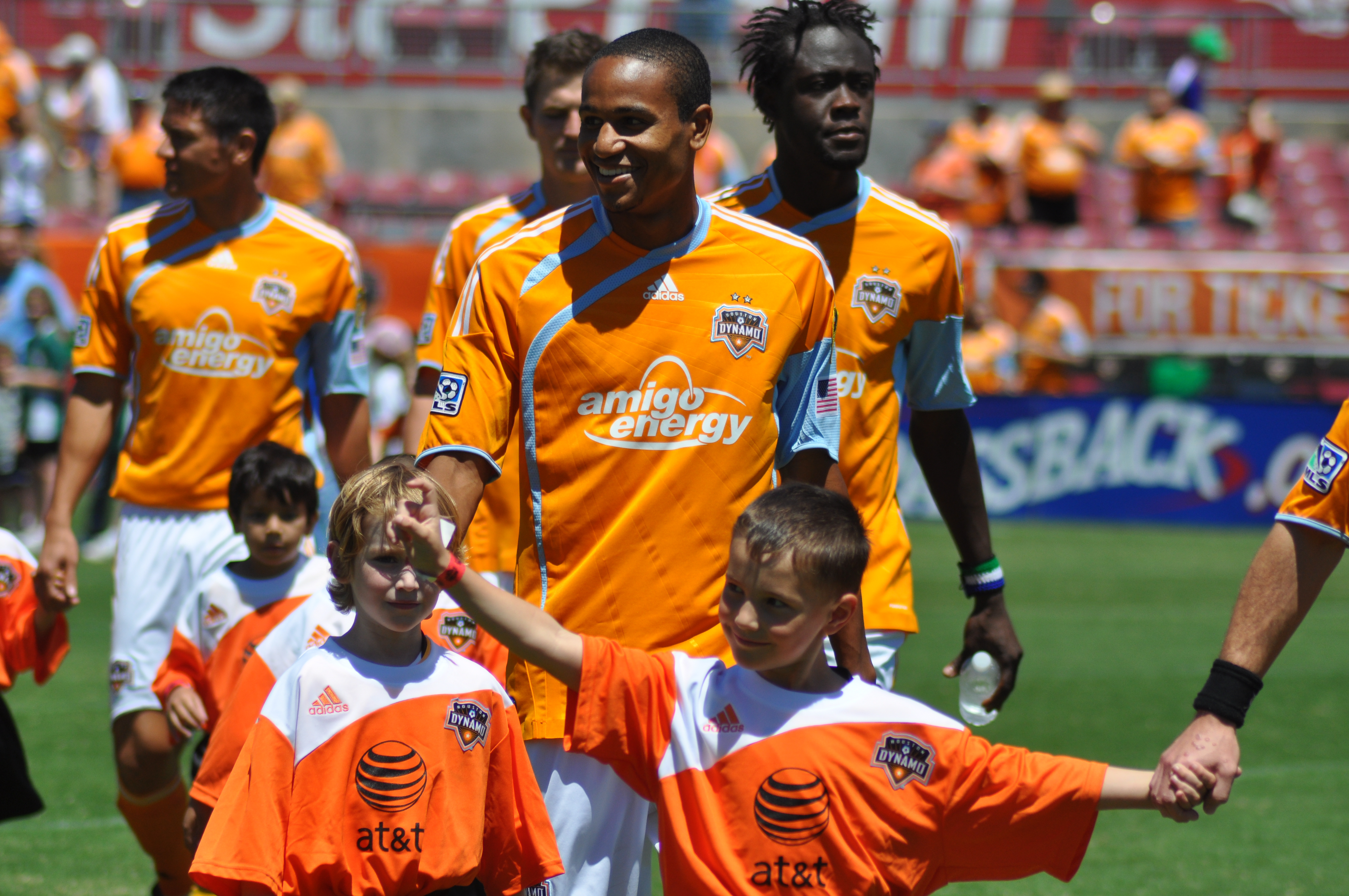 Dynamo players walk onto the pitch with mascots prior to the April 19 2009 Major League Soccer game between Houston Dynamo and the Colorado Rapids.